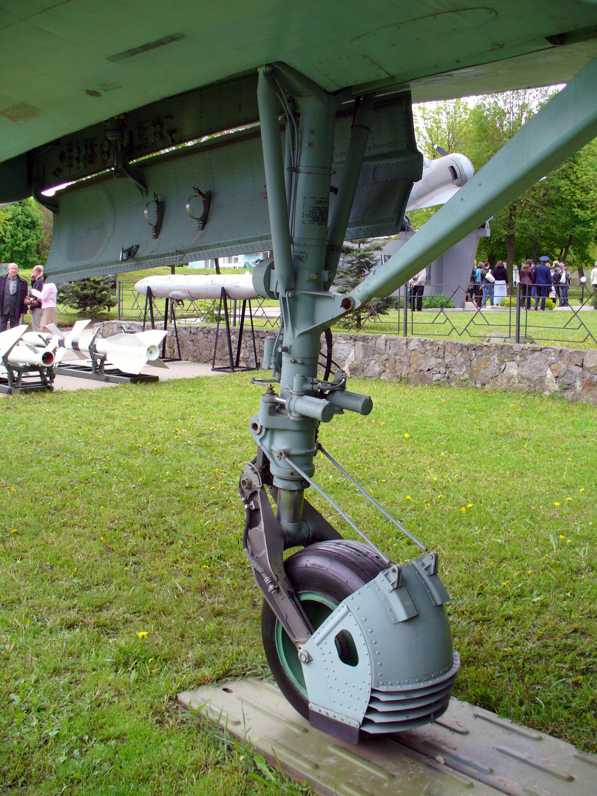 The Sukhoi Su-27 (NATO reporting name "Flanker"). Ukrainian Air Force Museum in Vinnitsa.